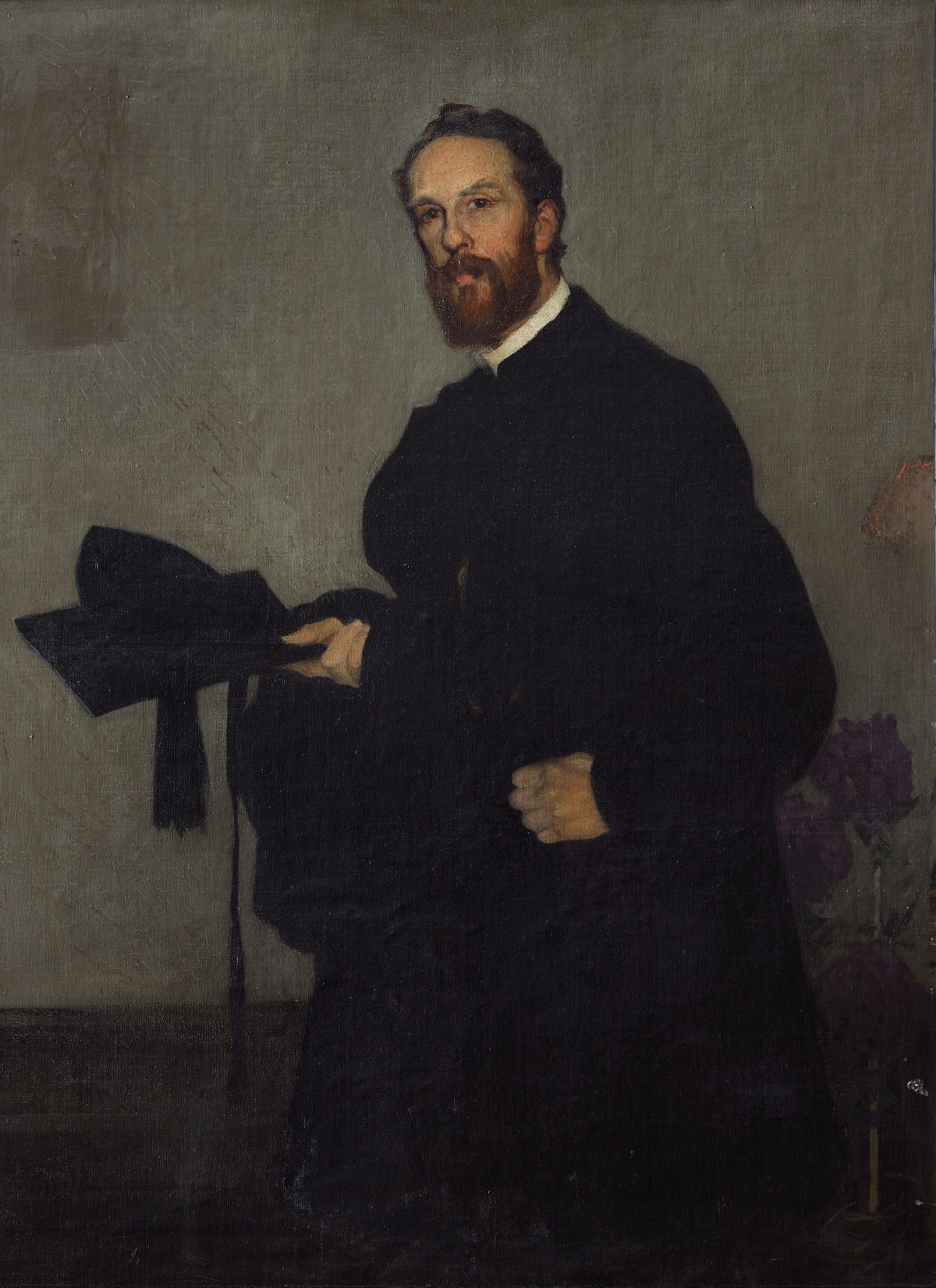 Arthur Temple Lyttelton (1852–1903), MA, First Master (1882–1893)